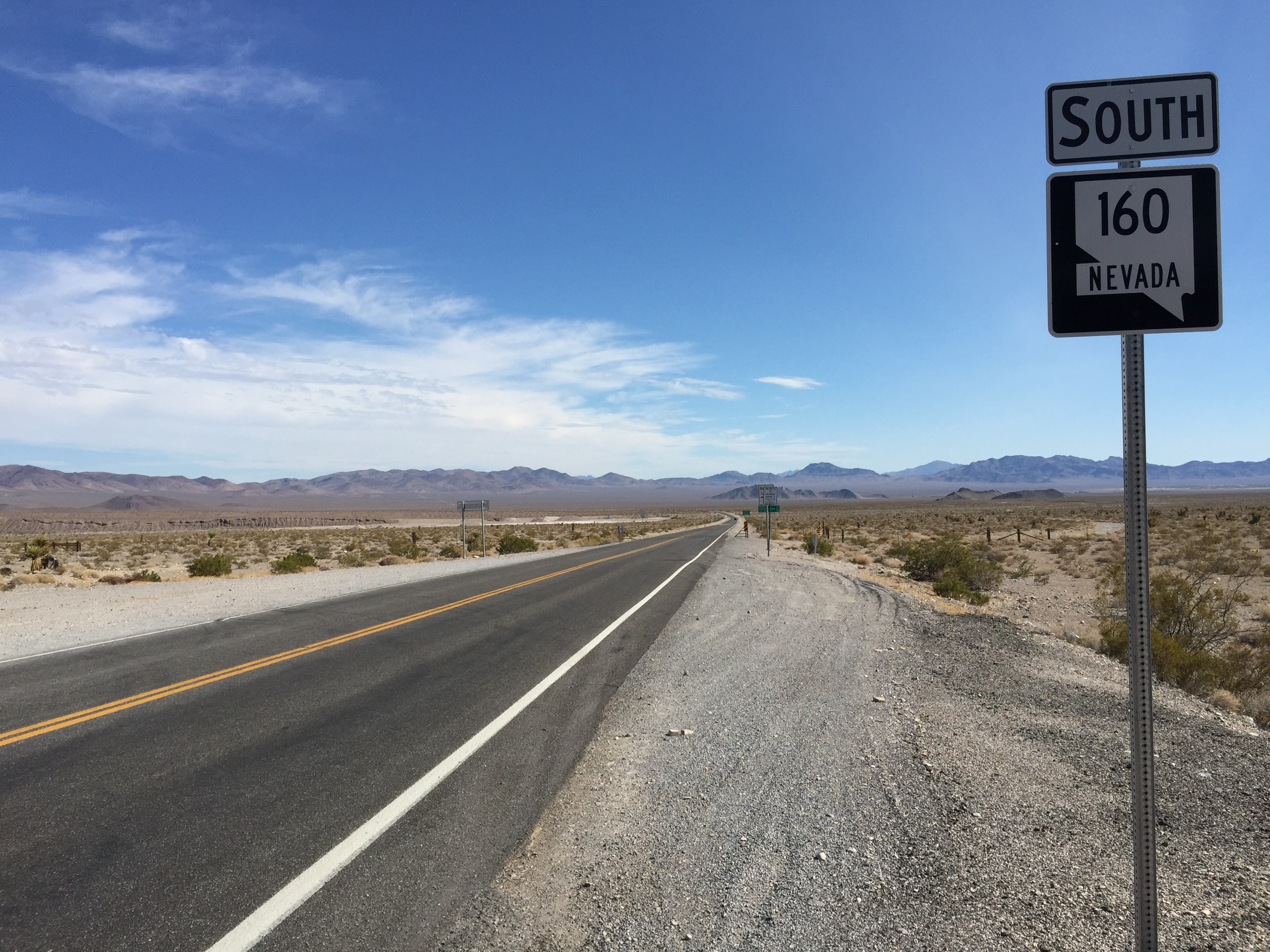 View south from the north end of Nevada State Route 160 (Pahrump Valley Road) in Nye County, Nevada